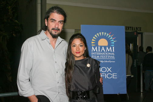 Fernando Leon de Aranoa (director) and Magaly Solier (actor) at the 2011 Miami International Film Festival screening of Amador at Cosford Cinema, 3-11-2011